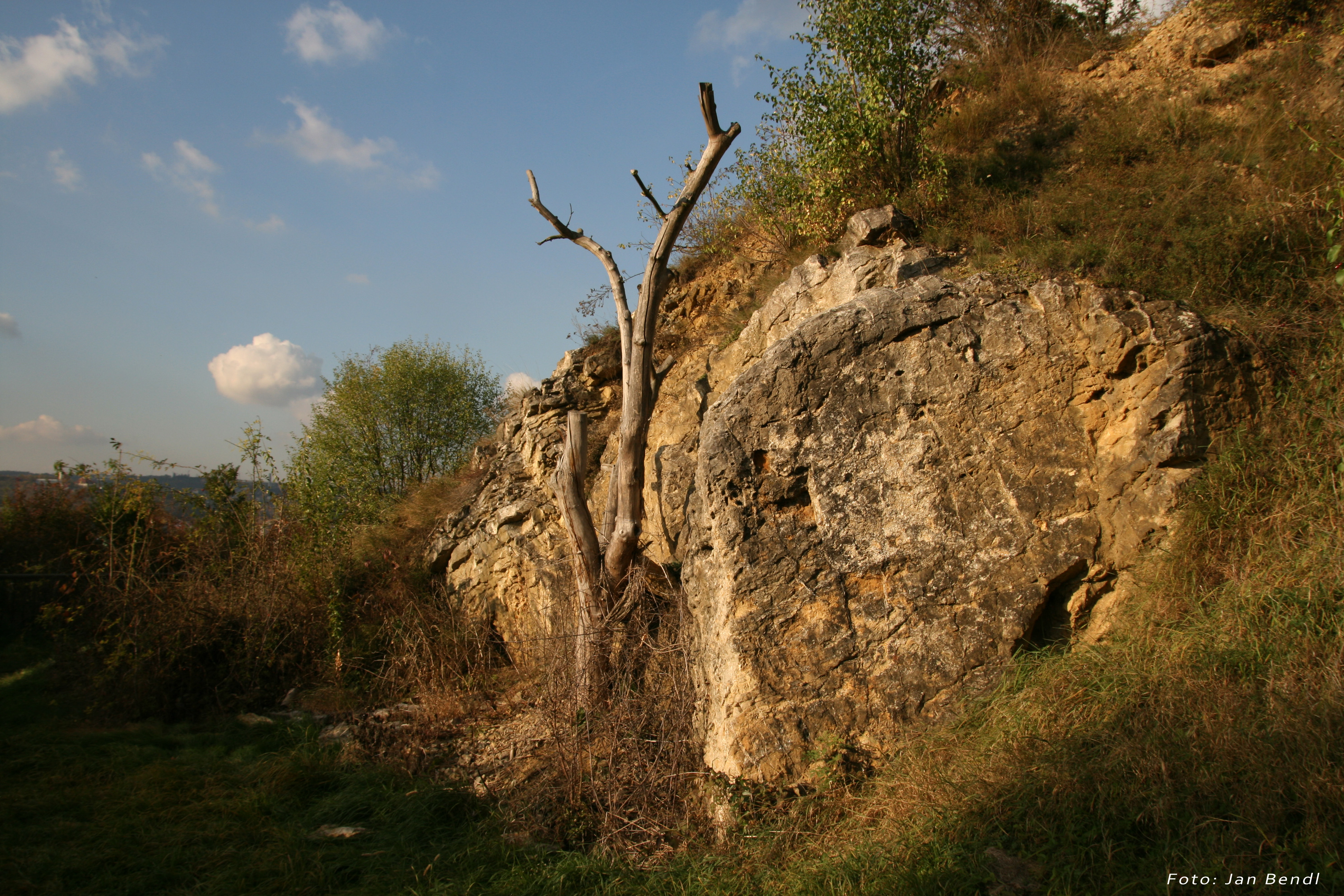 Natural monument Podolský profil in Prague, Czech Republic